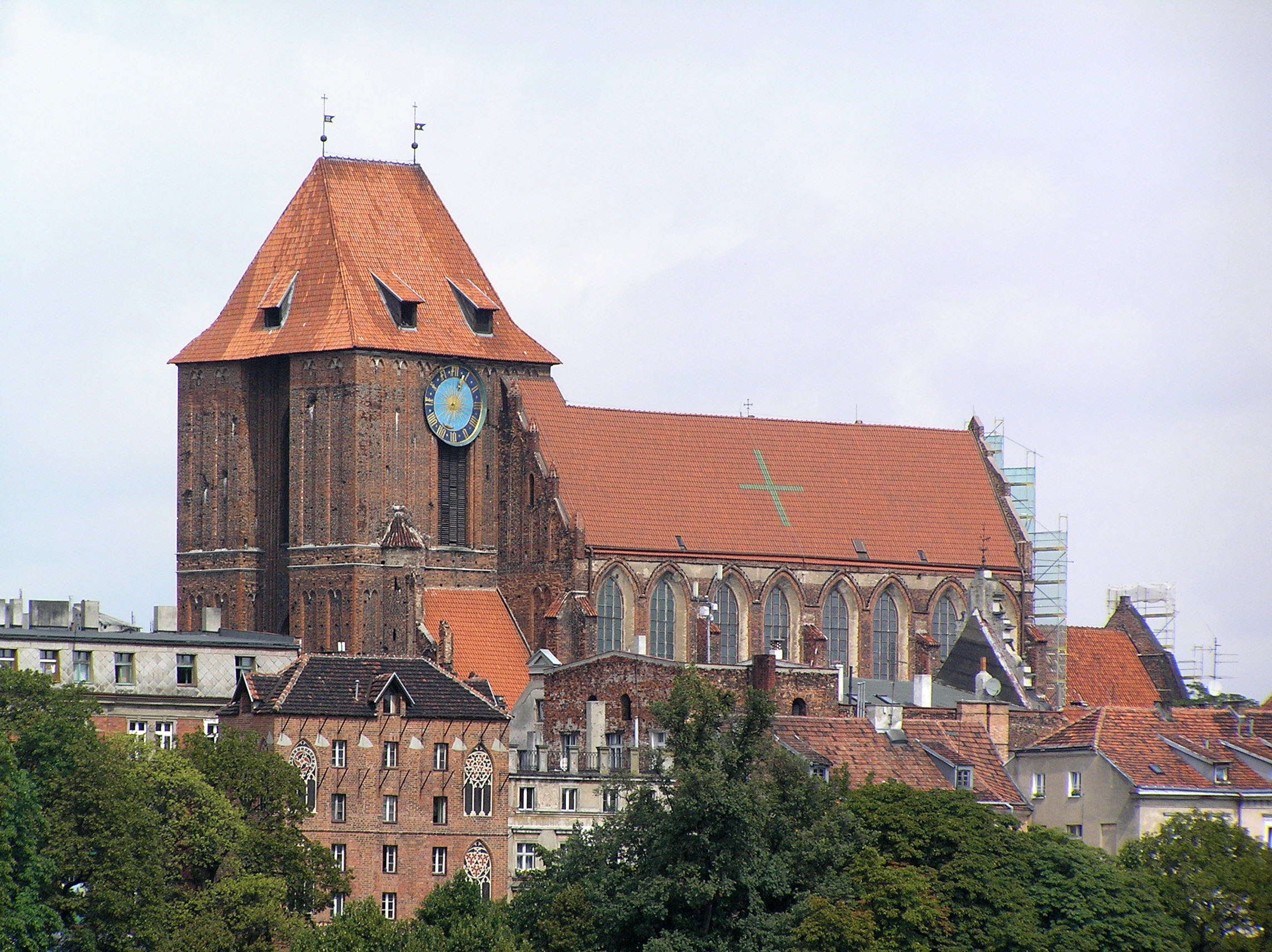 Toruń, church of SS. Johns, view from road bridge